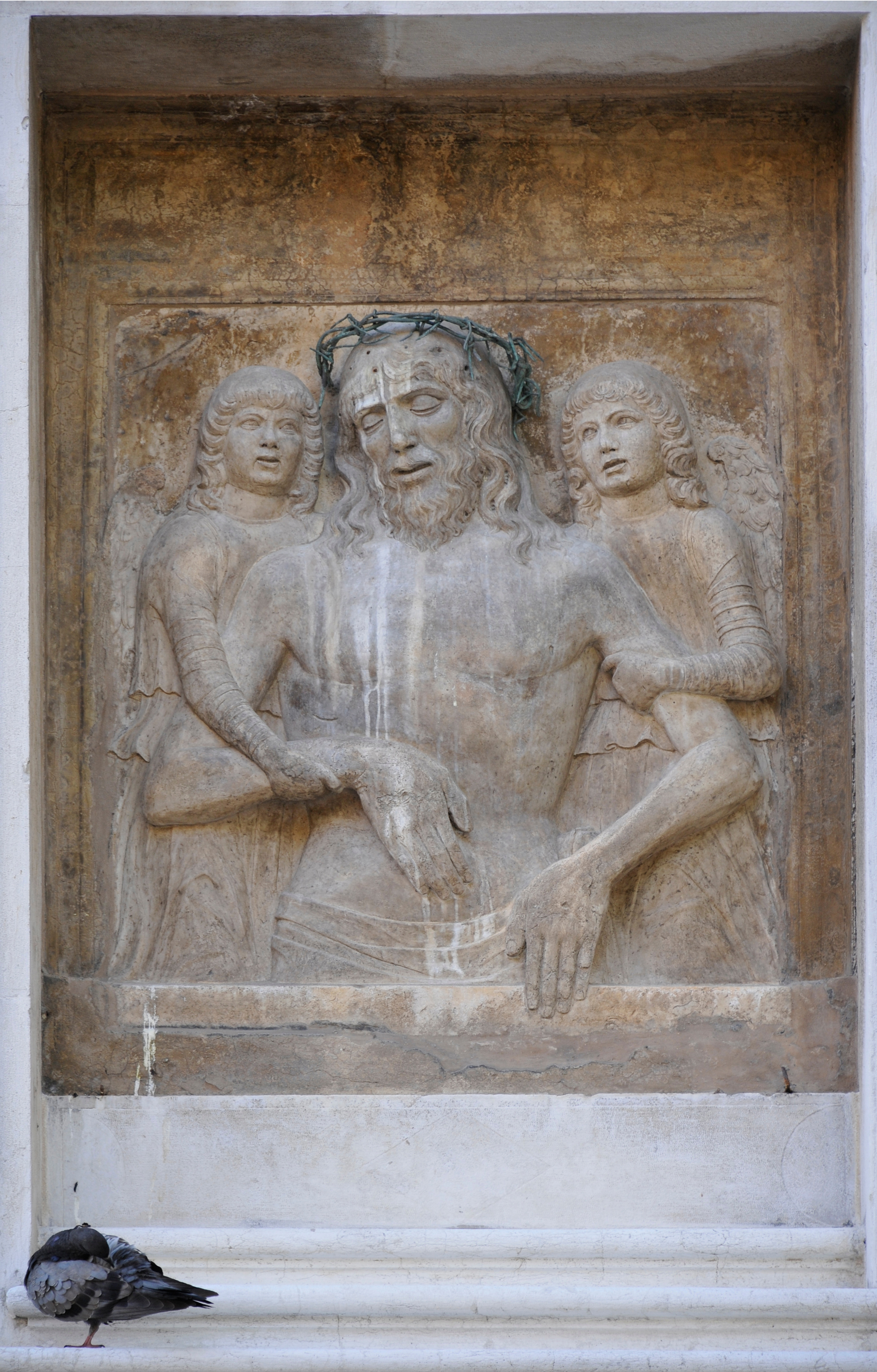 Relief of Christ and two angels on the facade of the Chiesa dei Gesuati church in Venice